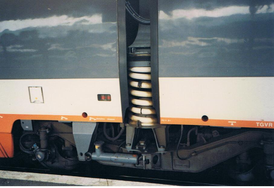 The first generation of French high speed train, TGV-PSEand articulated bogie with metal spring. March 1987.